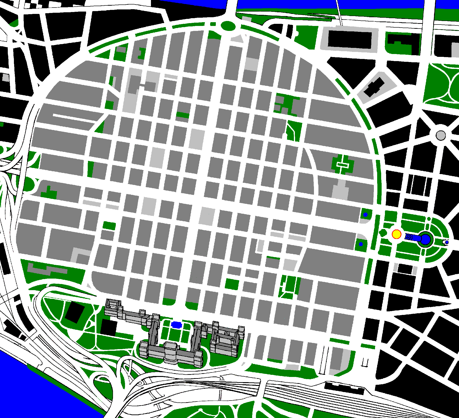 map of Mannheim in Baden-Württemberg, Germany